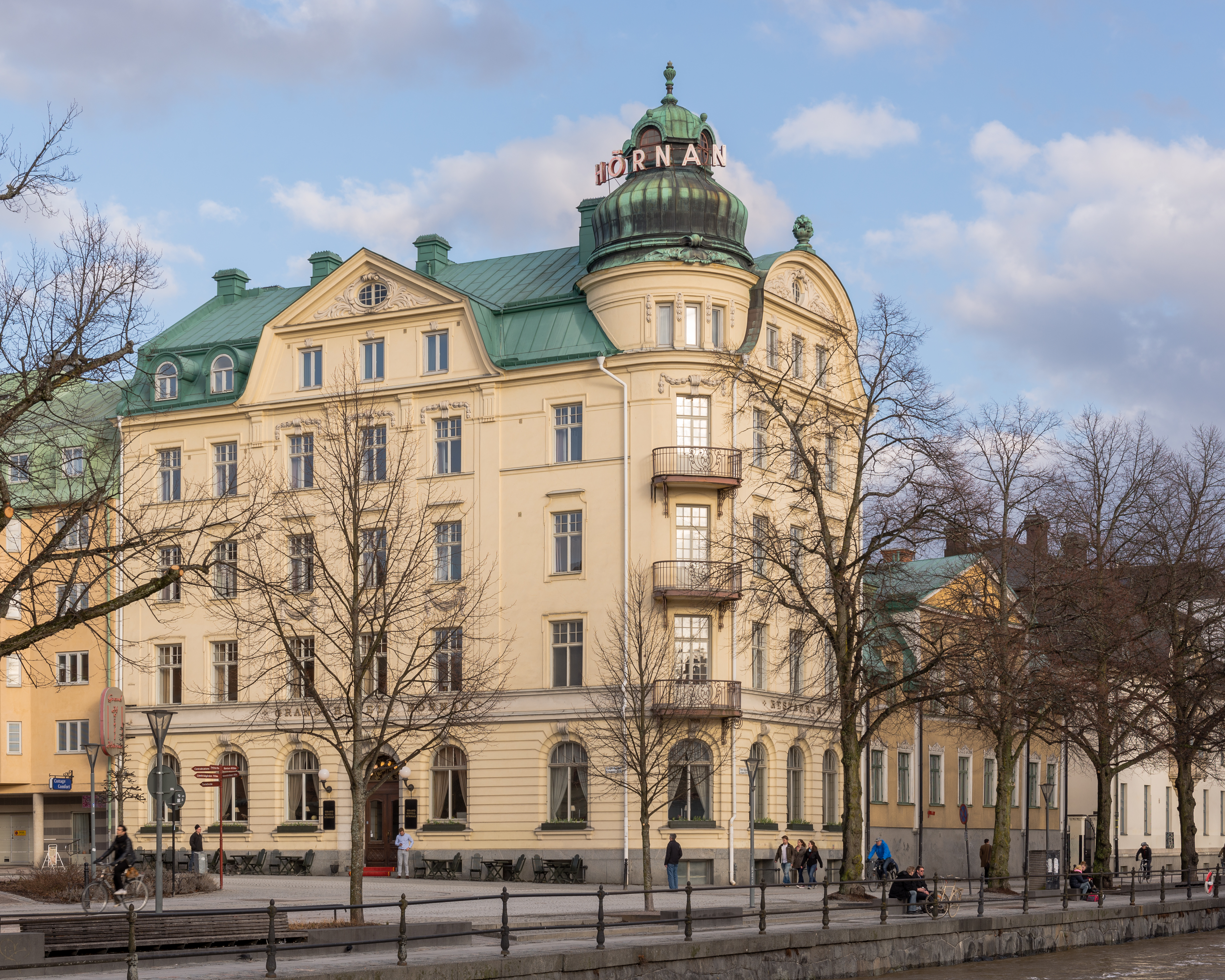 Grand Hotell Hörnan in Uppsala. Built 1907. Architect: Ture Stenberg.